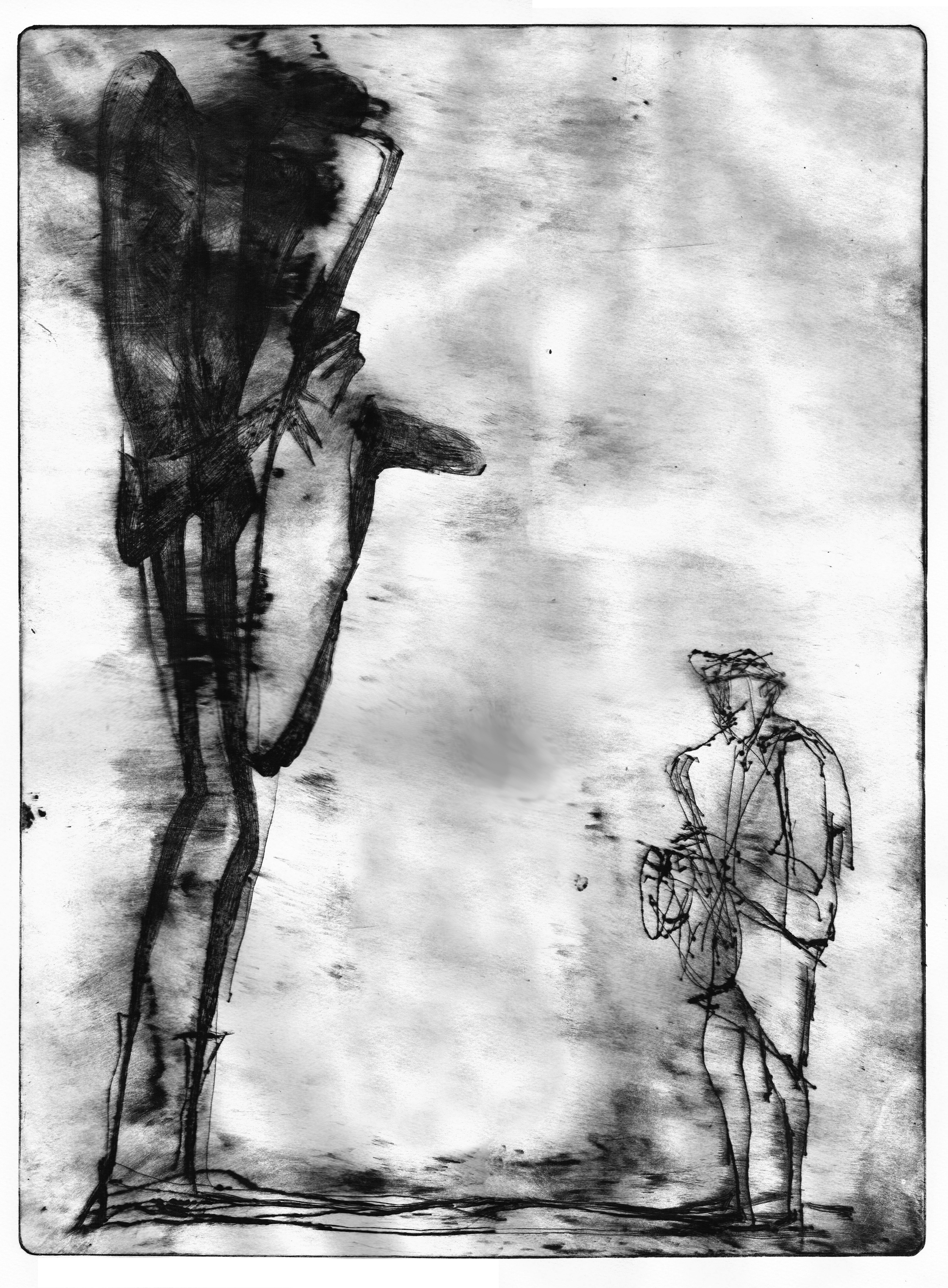 Australia, Mildura Print Triennial 2018, finalist drypoint, limited edition